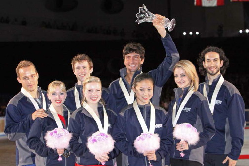 Team USA shows off its gold medals:(from row,from left)Caydee Denney,Rachael Flatt,Caroline Zhang,Tanith Belbin,;(back row,from left) Jeremy Barrett,Jeremy Abbott,Evan Lysacek,Benjamin Agosto.